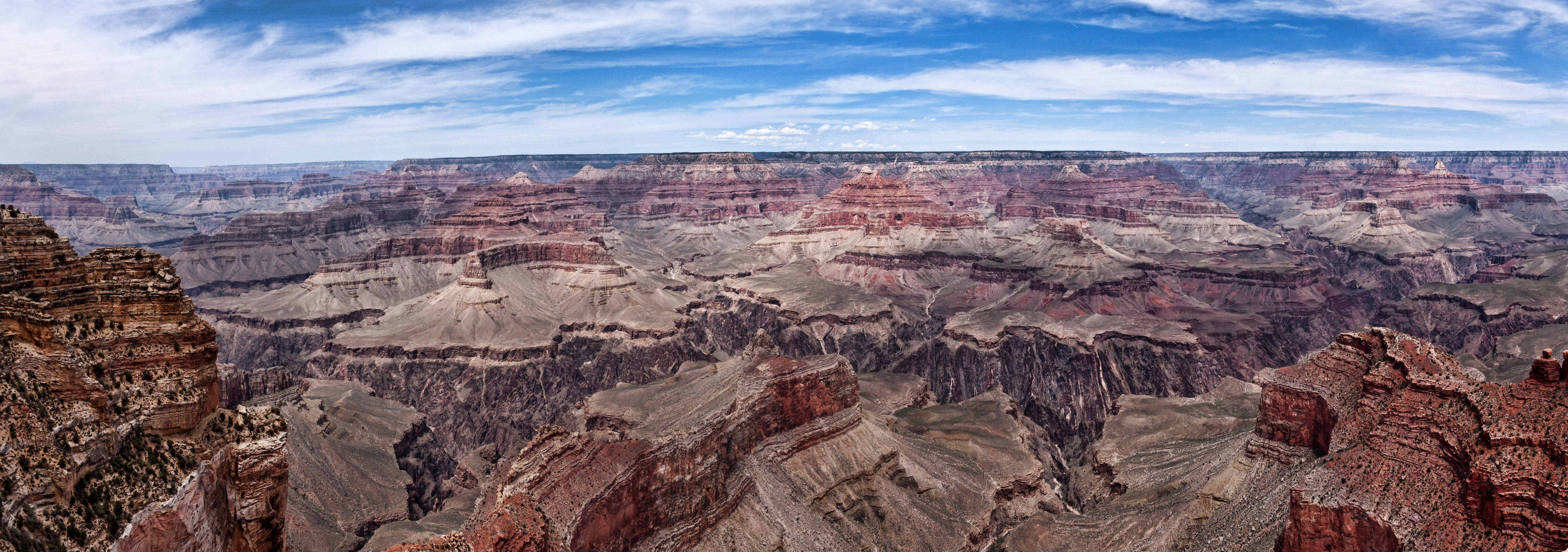 View from Hopi Point. The large canyon coming from northeast, Bright Angel Canyon. It meets the Granite Gorge, containing the Colorado River.